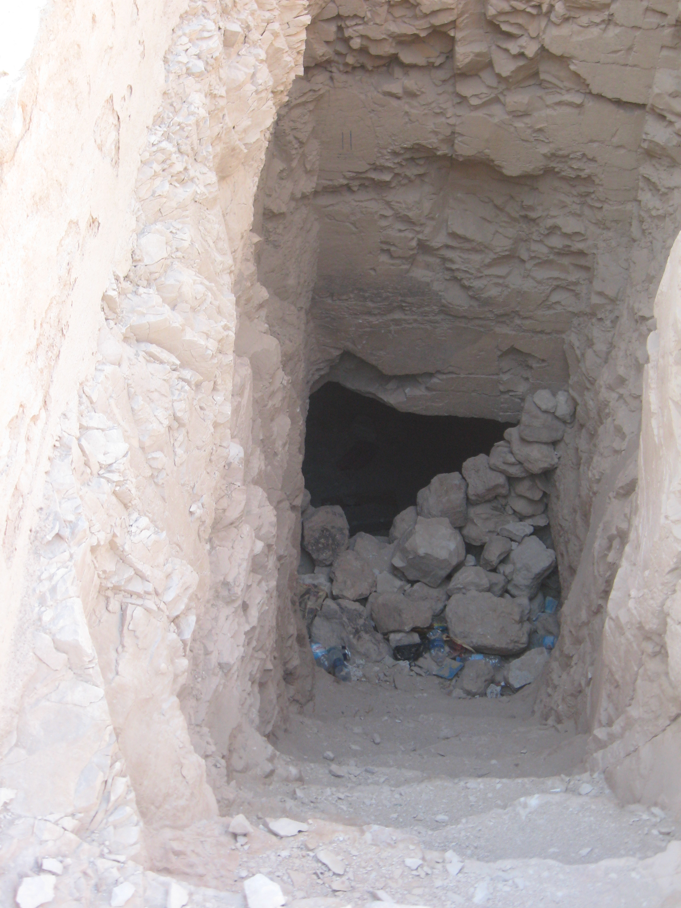 Tomb in the Valley of the Queens